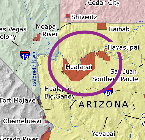 A circled portion of a map of American Indian Reservations in the southwest United States, highlighting the location of the Hualapai and Havasupai reservations